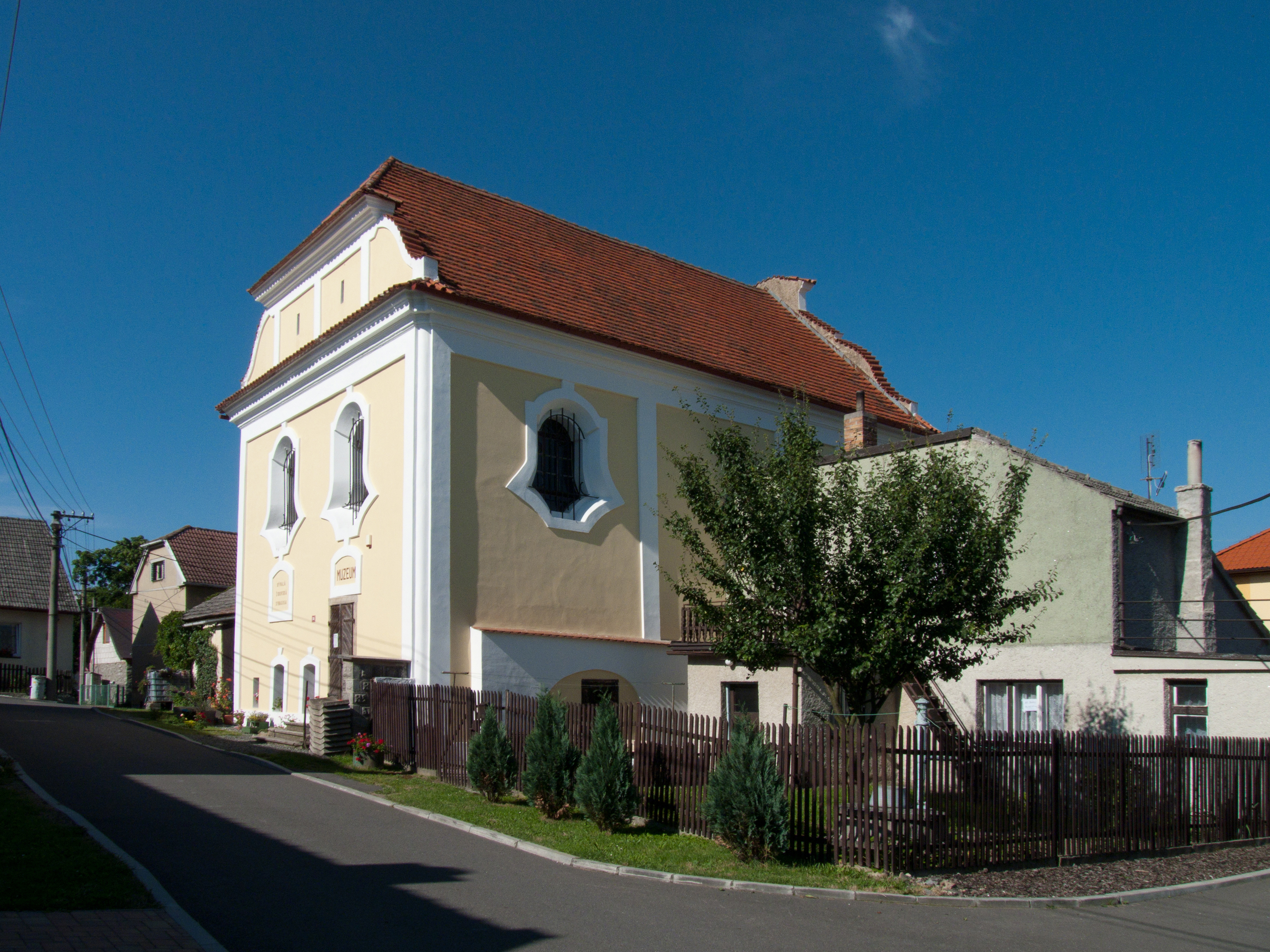 Former synagogue in the village of Kasejovice, Plzeň district, Czech Republic, used as a local museum only at present